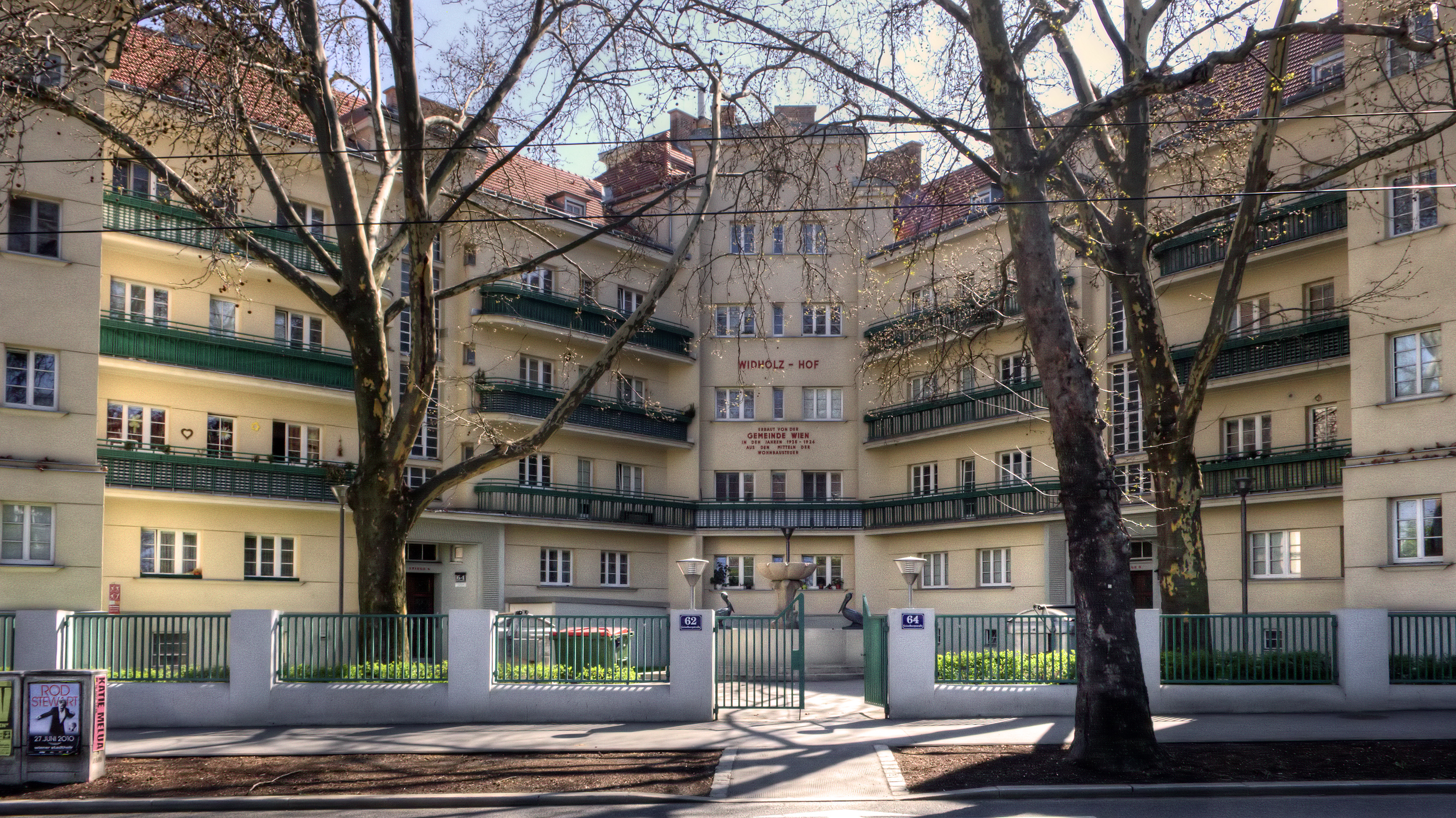 Residential building Widholzhof in Vienna Simmering